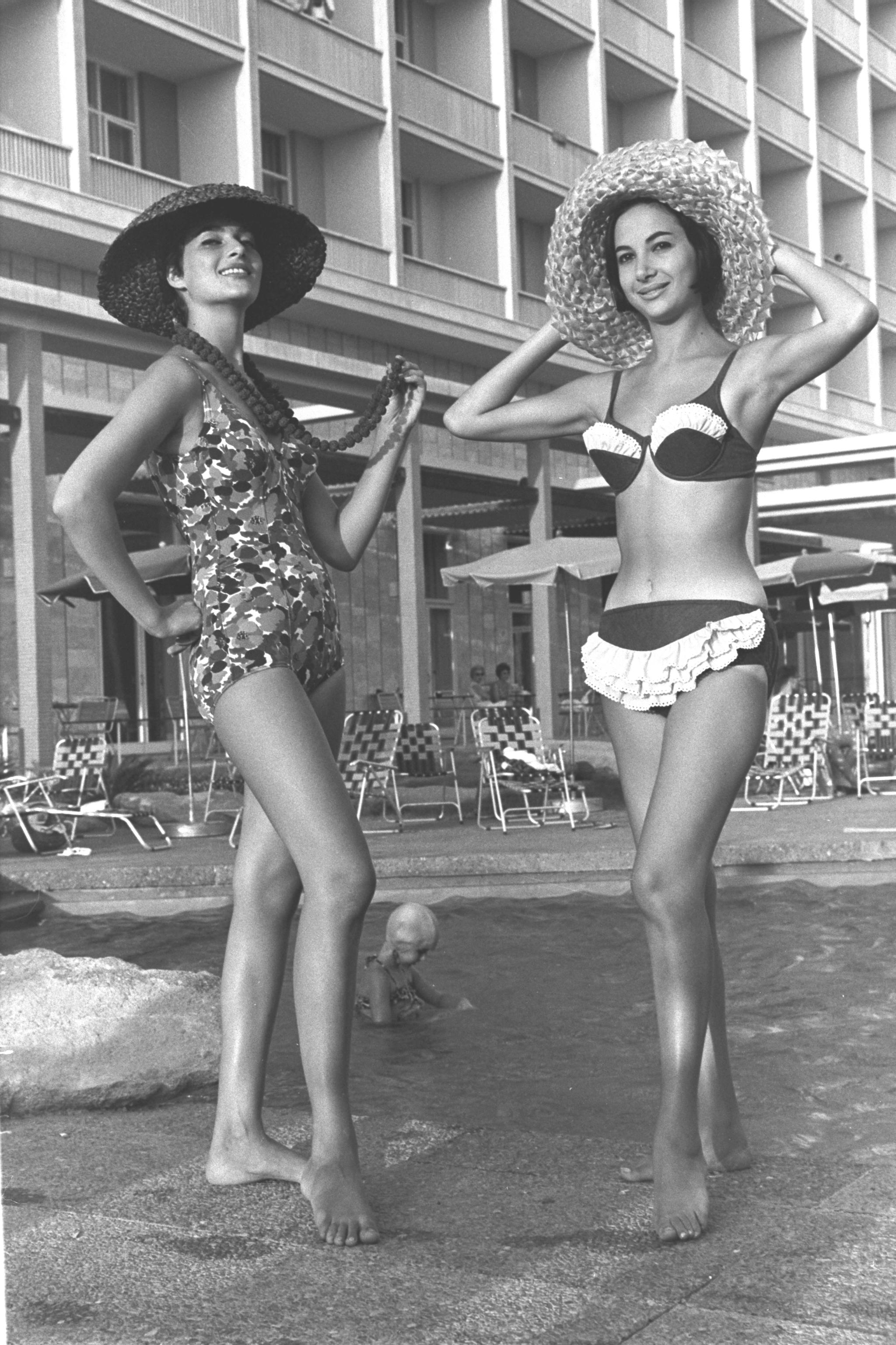 Gottex bathing suits modeled at the Sheraton Hotel in Tel Aviv.